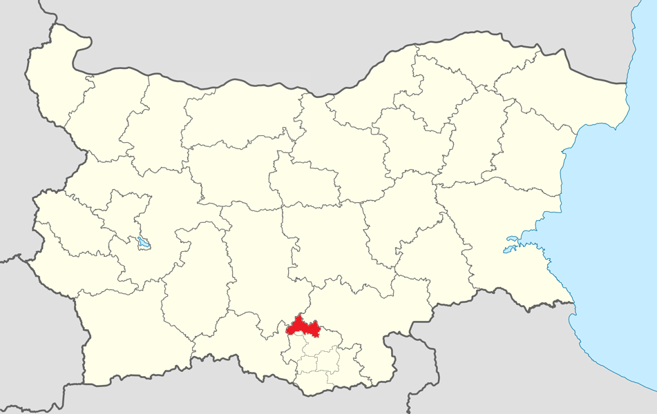 Location map of Chernoochene Municipality within Bulgaria and Kardzhali province